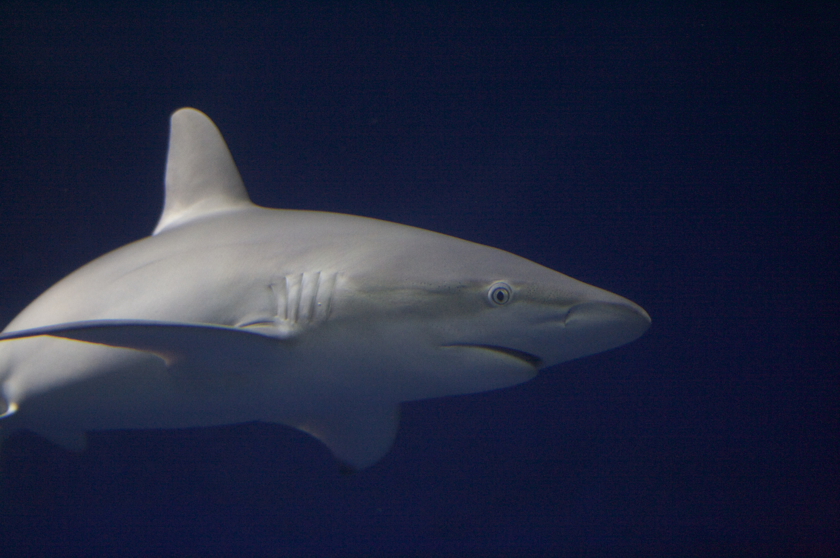 Galapagos shark (Carcharhinus galapagensis) at the Monterey Bay Aquarium